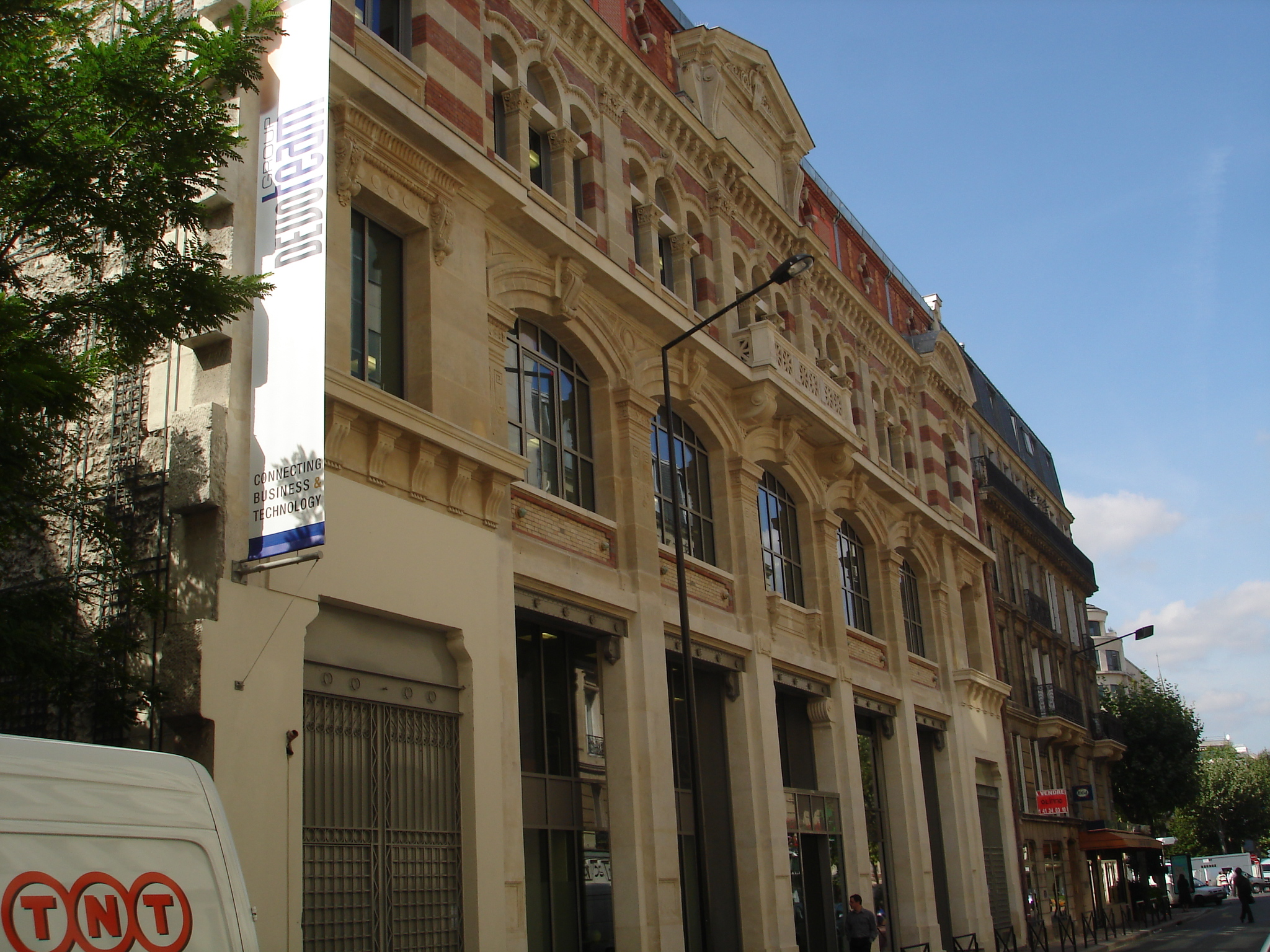 Old building of the "Alliance des Travailleurs", a worker cooperative, located at Levallois Perret, suburb of Paris